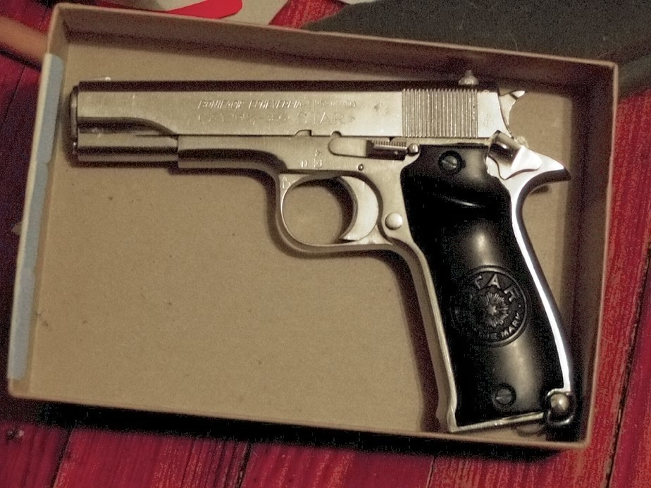 Star Model S 380 pistol made by Star Bonifacio Echeverria, S.A.